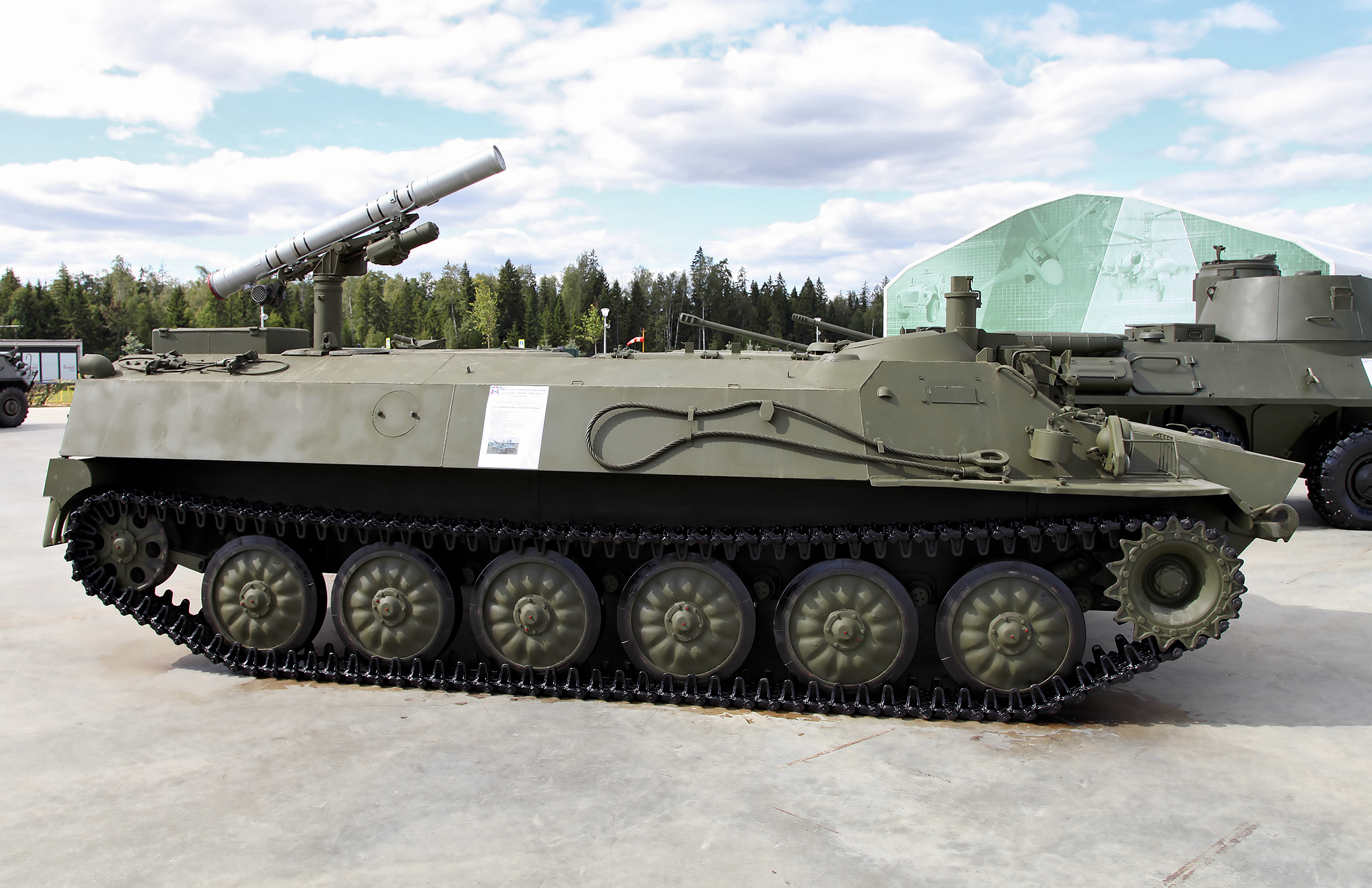 9P149 launching vehicle of 9K114 Shturm-S ATGM system